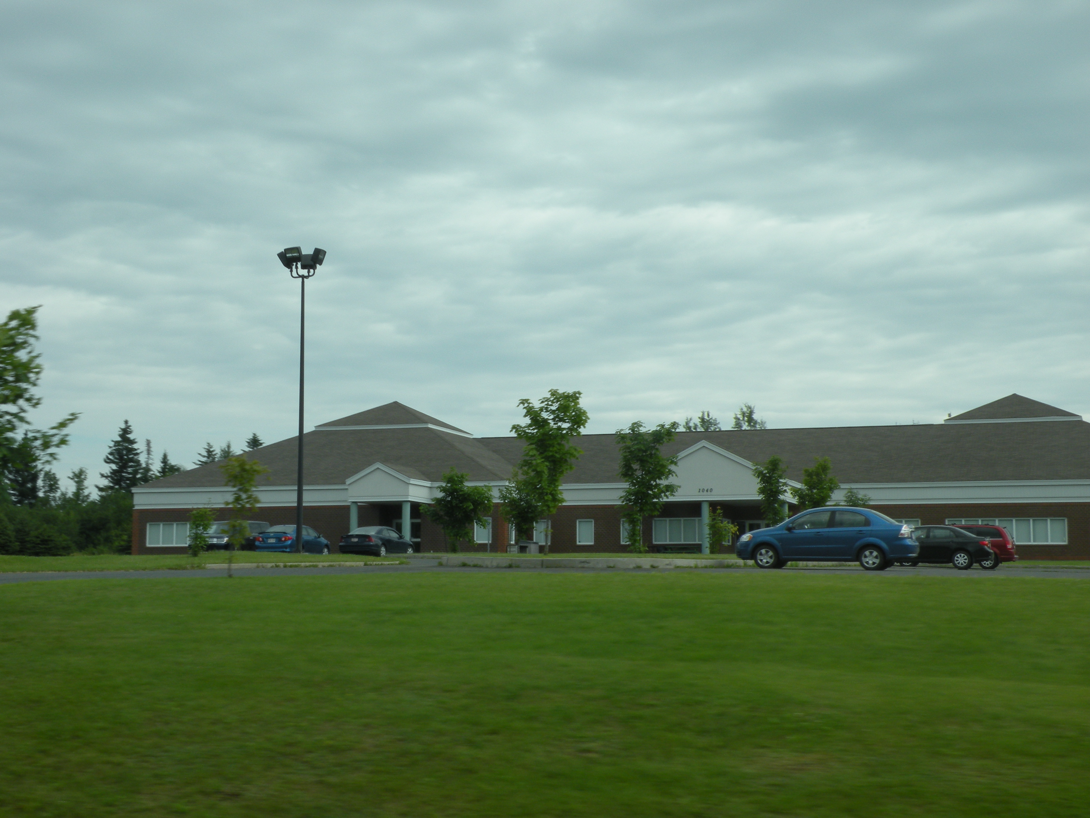 The Acadian peninsula technological park in Paquetville, New Brunswick.